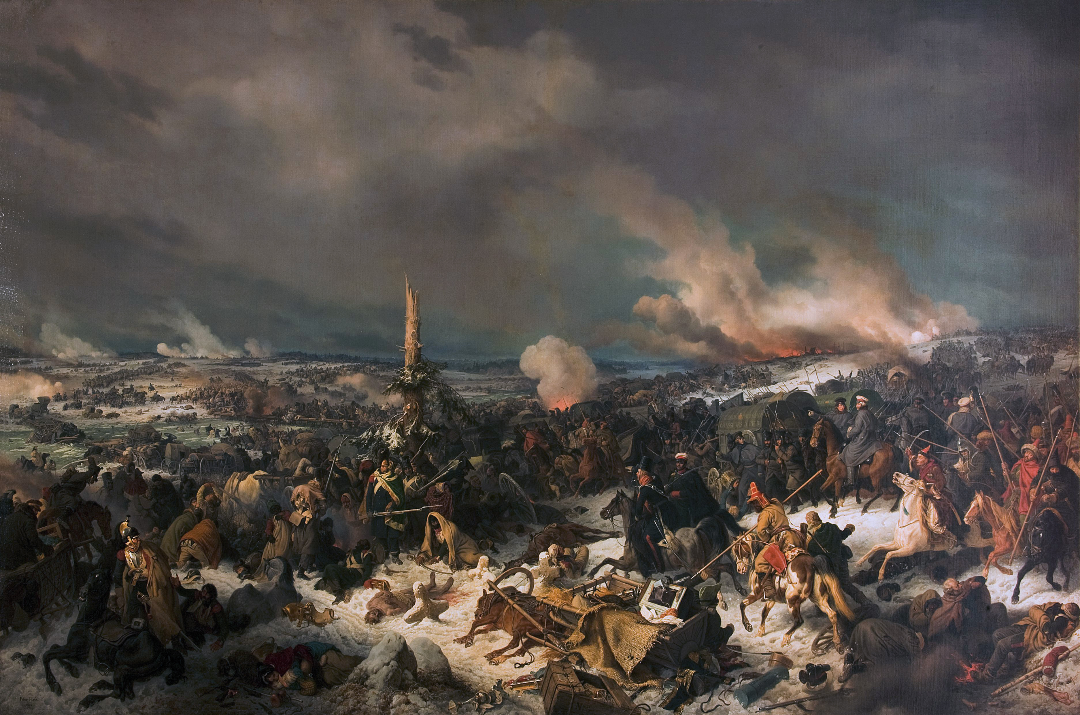 Crossing the Berezina River on 17 (29) November 1812 oil on canvas 224x355 cm signed b.l.: Peter Hess / 1844